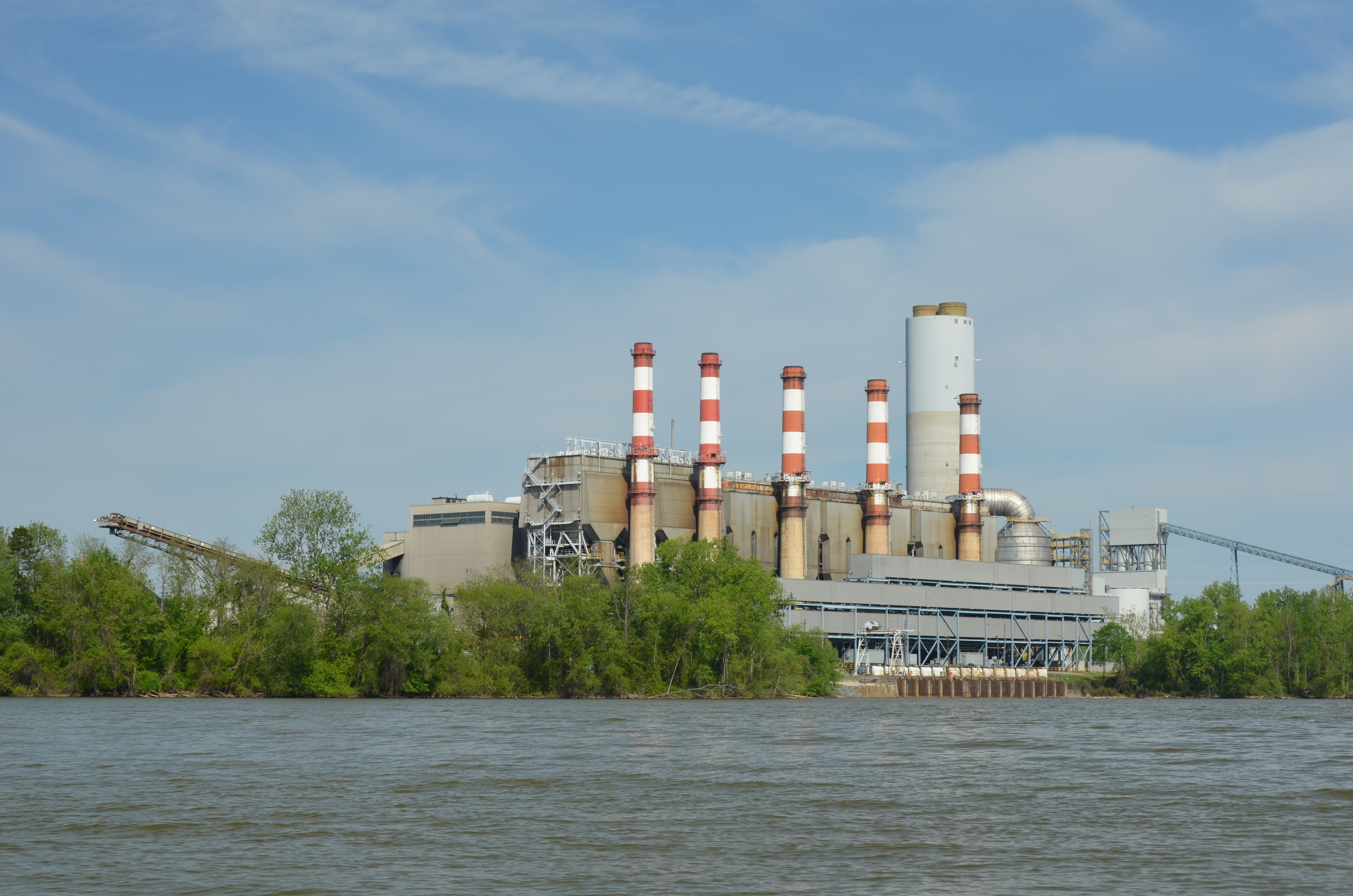 G G Allen Steam Plant from Lake Wylie. Coal power plant.